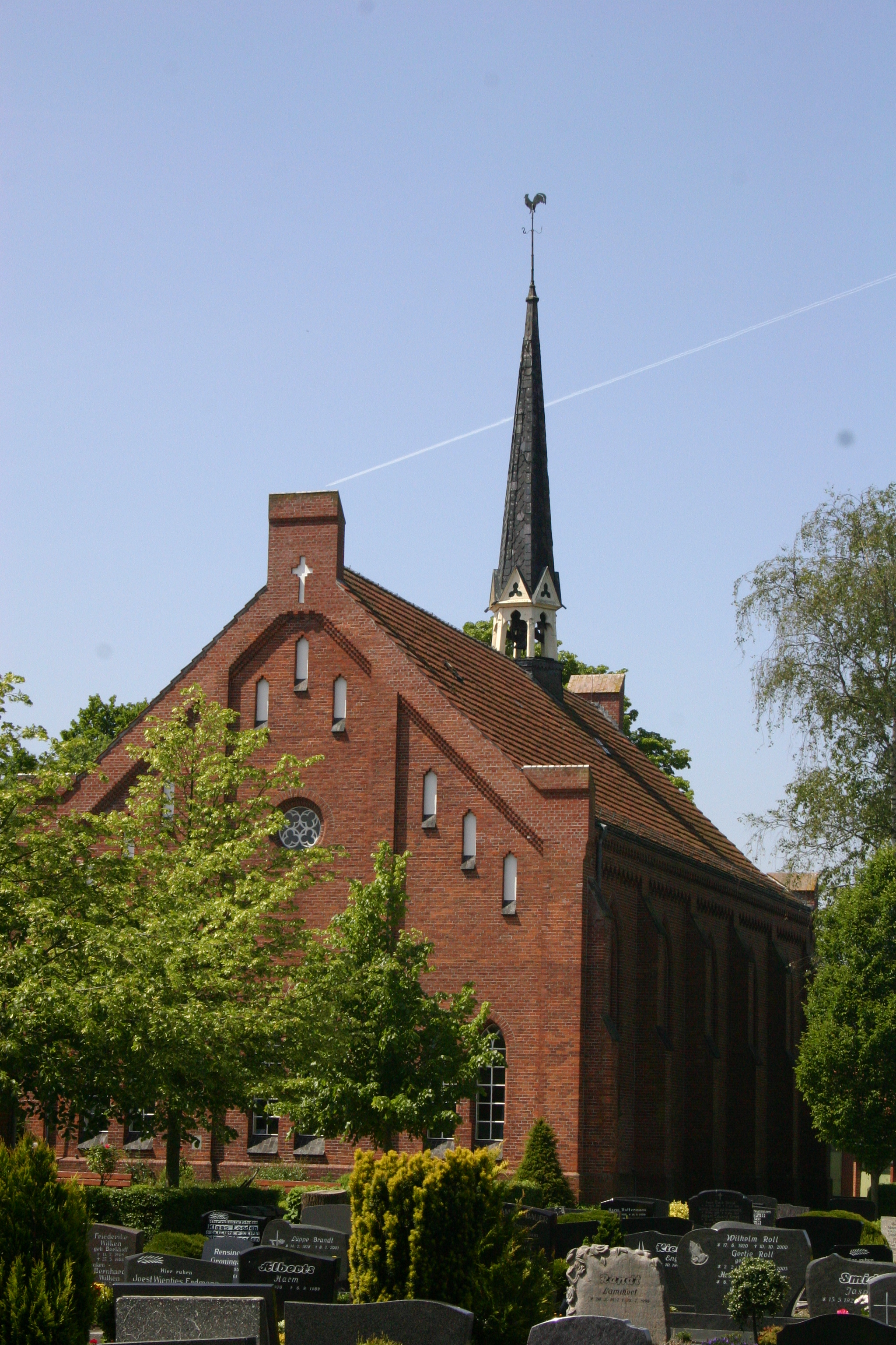 Historic church (ref.) in Ditzumerverlaat, district of Leer, East Frisia, Germany